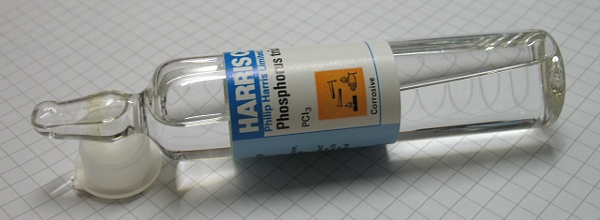 Phosphorus trichloride in a glass ampoule of 25 ml. It is a clear colorless liqud.